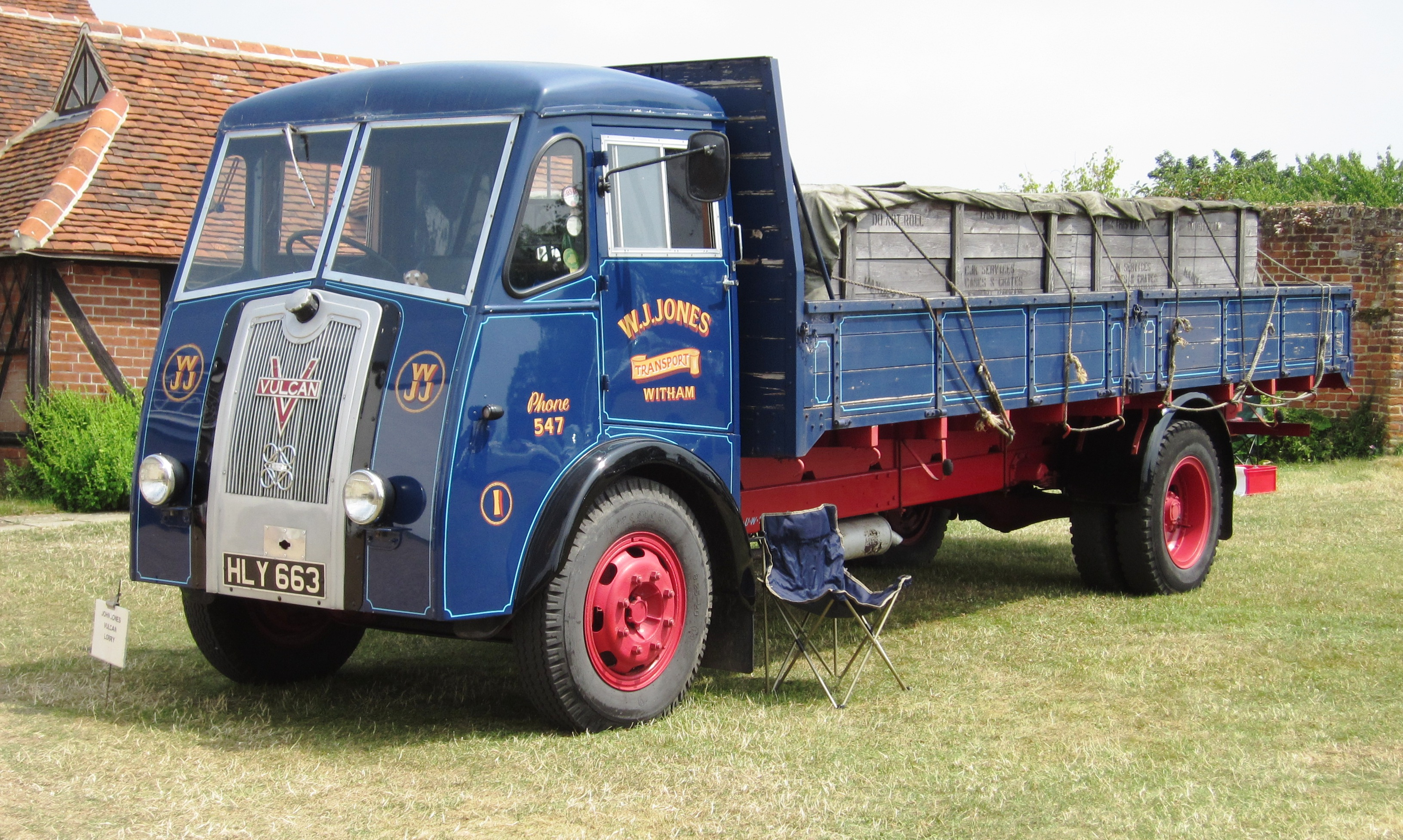 Vulcan Truck at Maldon.